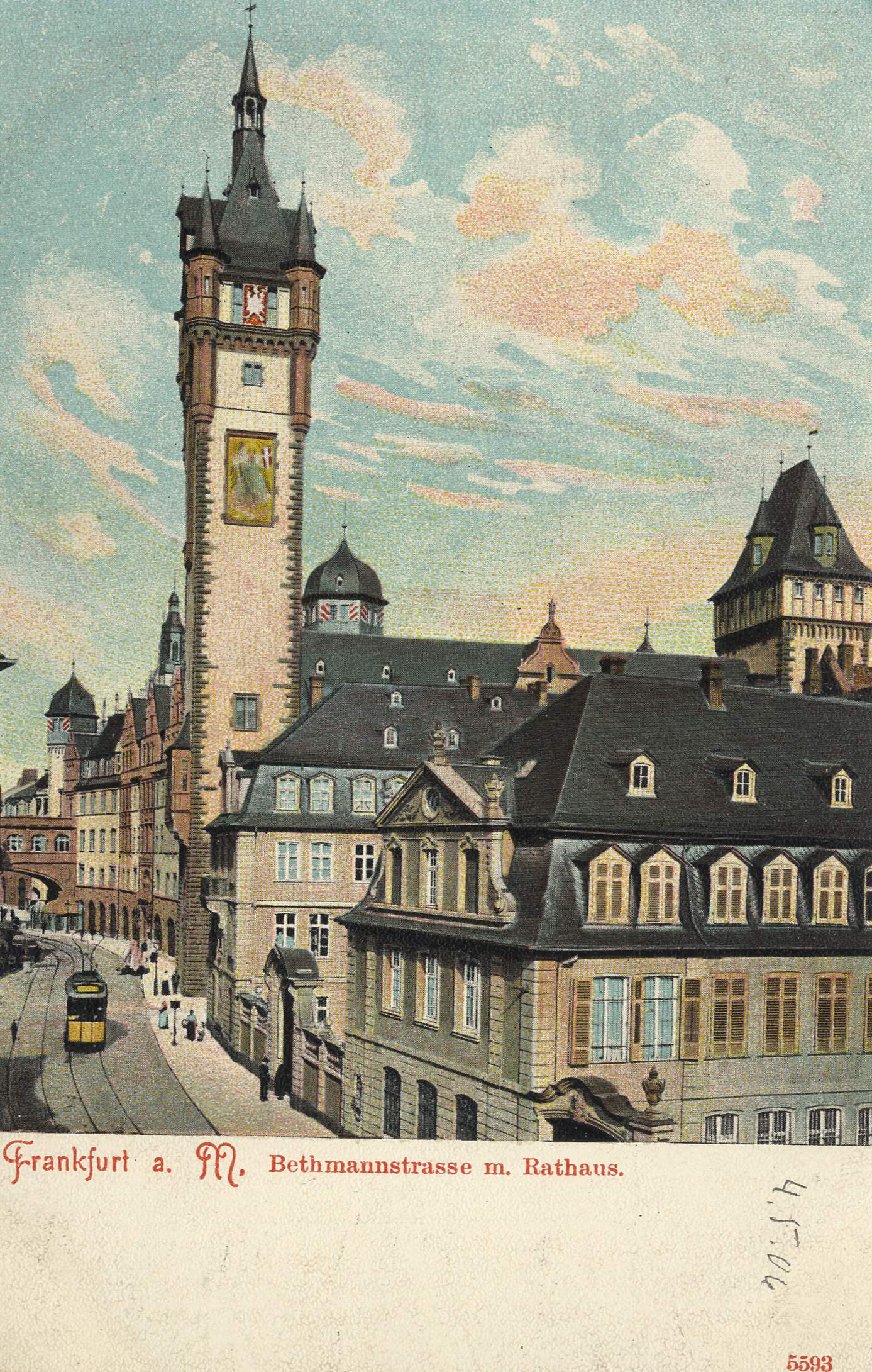 Frankfurt/Main: New buildings of the town hall with the tower Langer Franz (tall Franz) and Kleiner Kohn ("small Kohn") as seen from the Bethmannstraße (Straße=street)